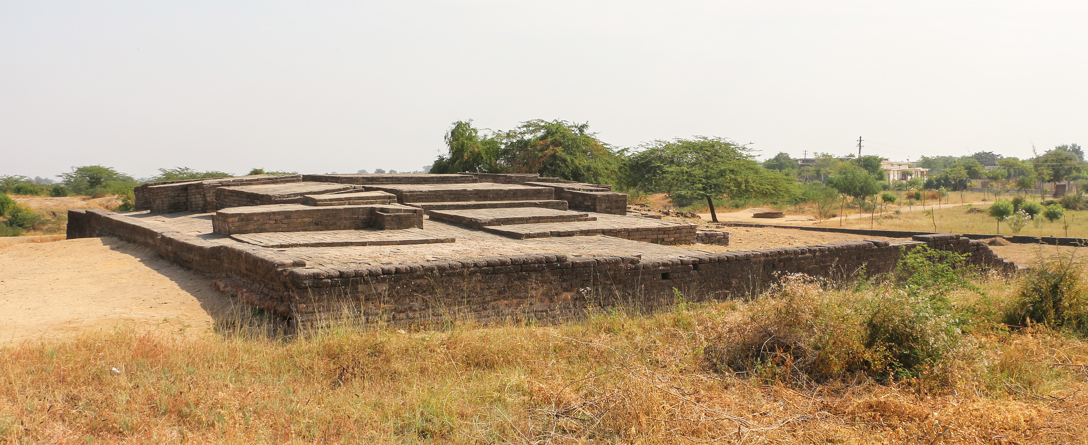 Ruins of the warehouse in the site of Lothal, India